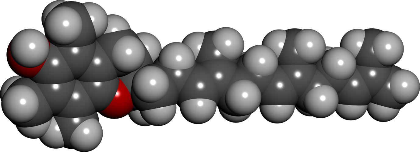 A space filling model of the alpha-tocotrienol molecule.